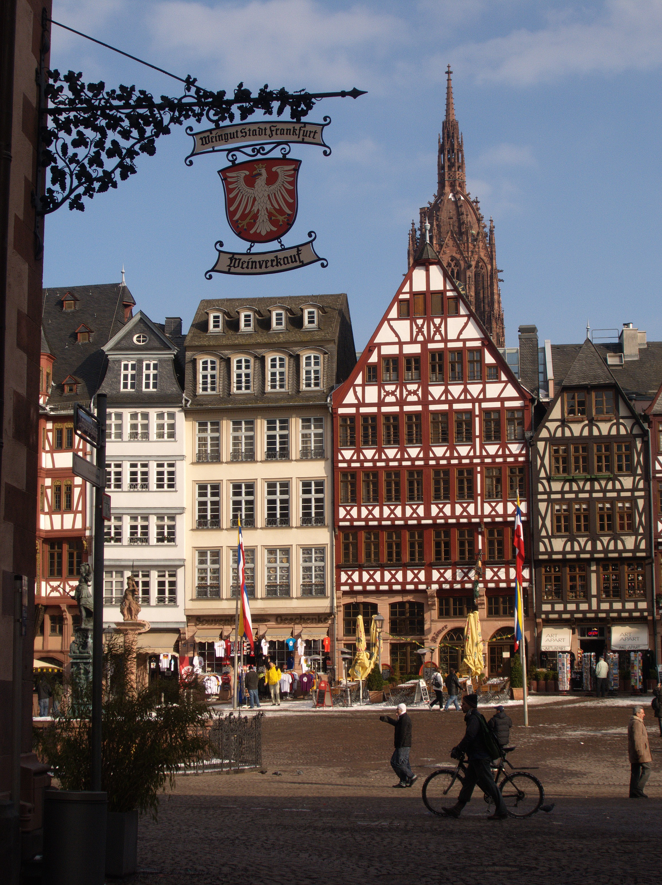 View from the Limpurgergasse to the east, with view on Römerberg and Samstagsberg. In the background the buildings of the reconstructed Ostzeile ("Eastline").